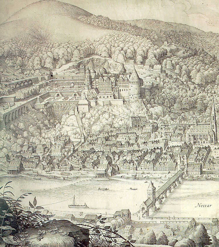 historic views of Heidelberg, Germany